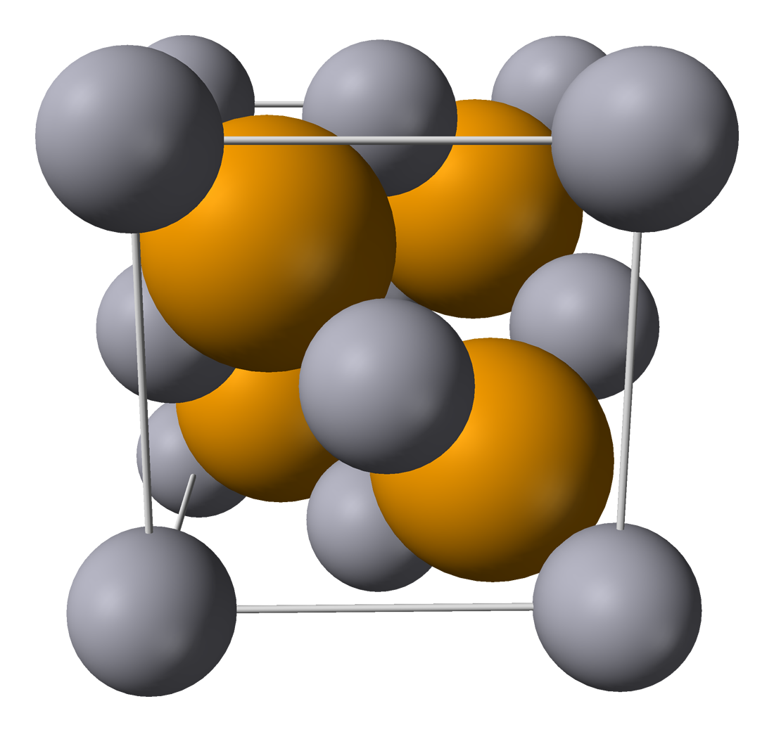 Space-filling model of the unit cell of mercury selenide, HgSe